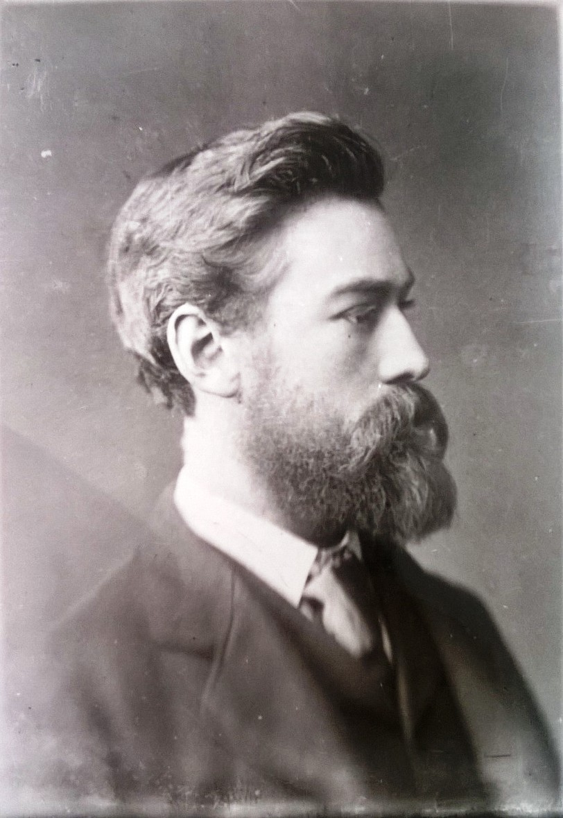 black and white portrait photograph of Arthur Silver